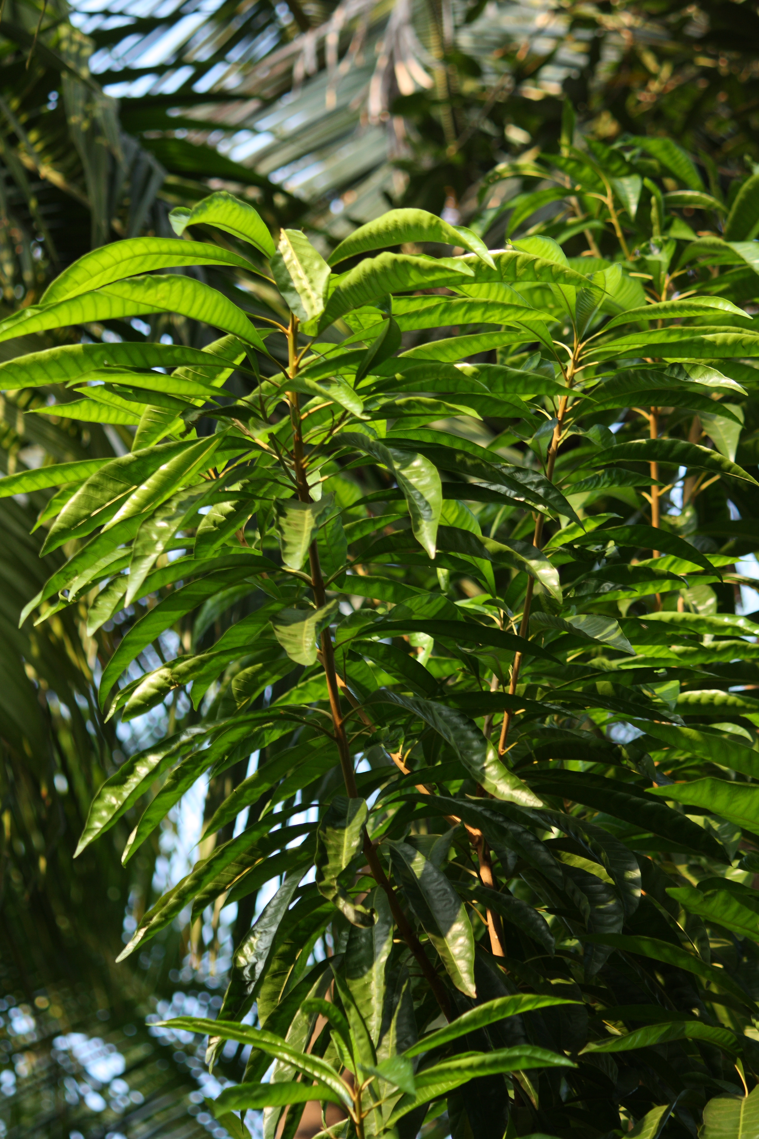 Egg Fruit plant